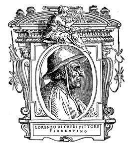 Illustratio from "Le Vite" by Giorgio Vasari, edition of 1568. For the artist portrayed see filename